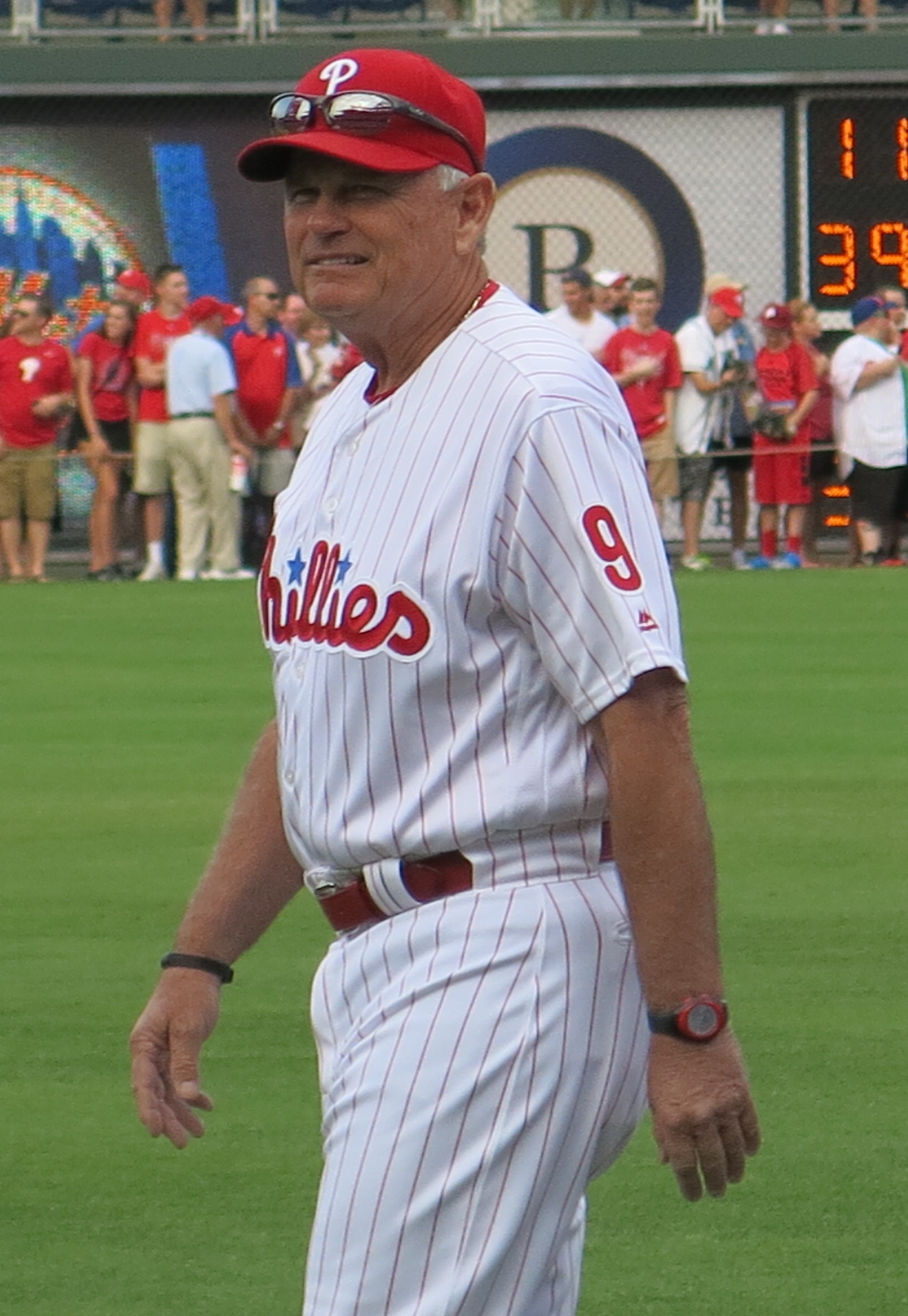 John McLaren of the Philadelphia Phillies, July 16, 2016.